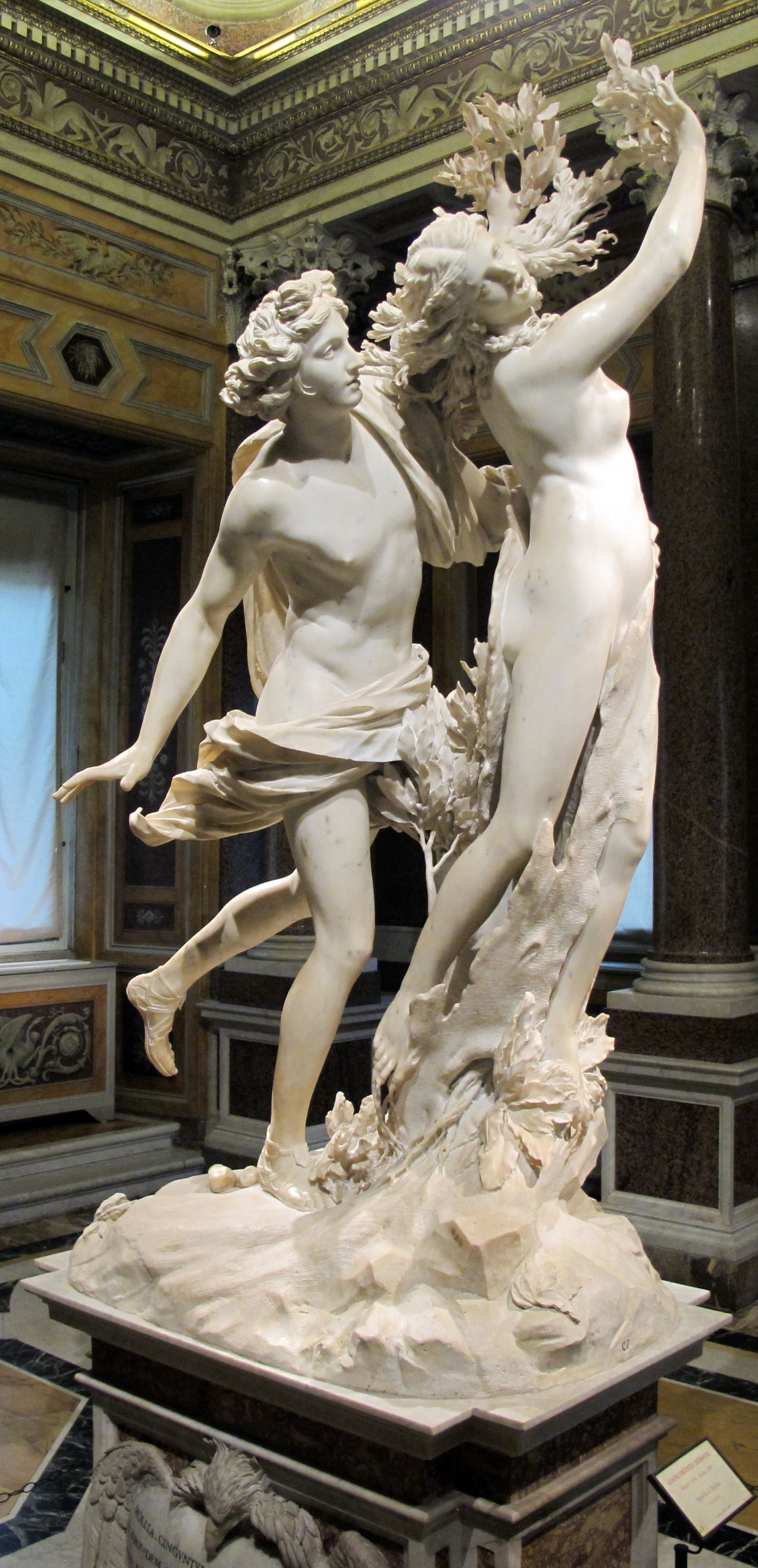 Sculptures in the Galleria Borghese (Rome)